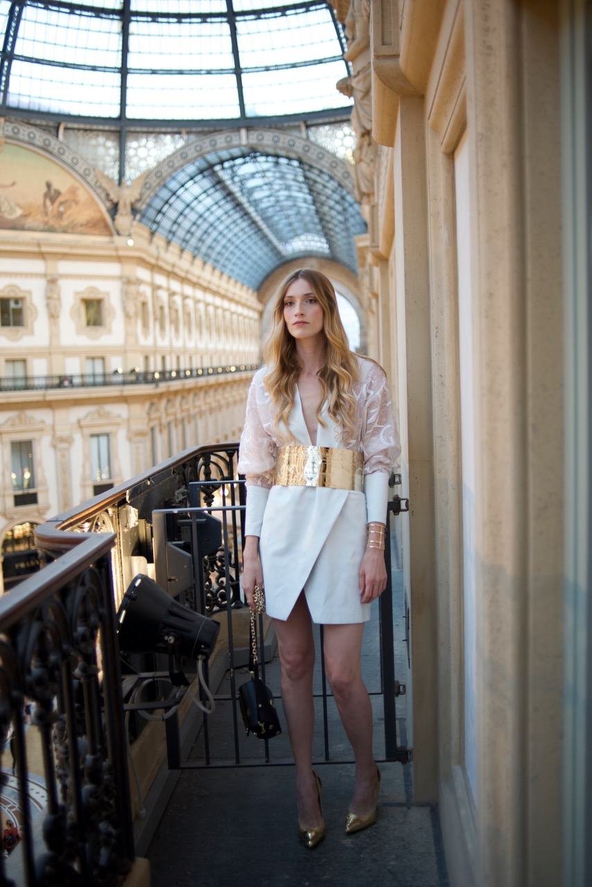 Carola Insolera at the World Premiere of Sign Gene